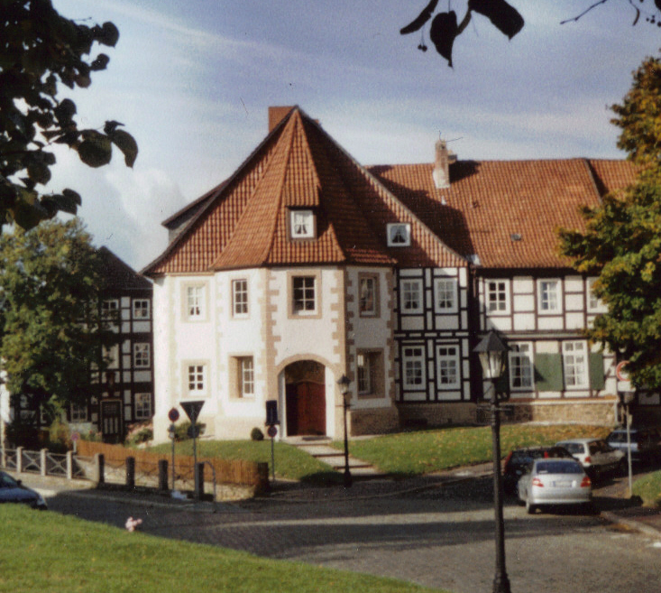 Former Saint Nikolai Chapel, Hildesheim